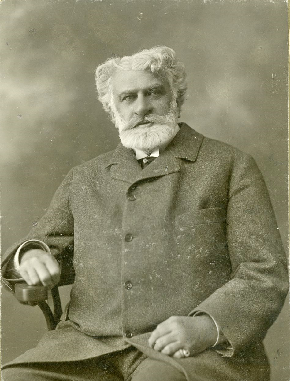 Depicted person: Kálmán Thaly – Hungarian poet, historian and politician